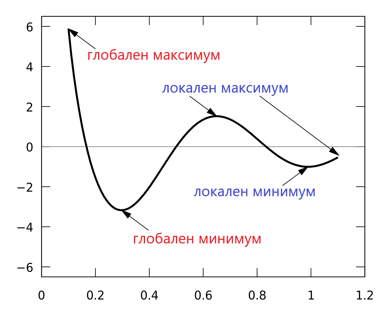 Global/local maxima/minima of cos(3πx)/x, 0.1≤x≤1.1